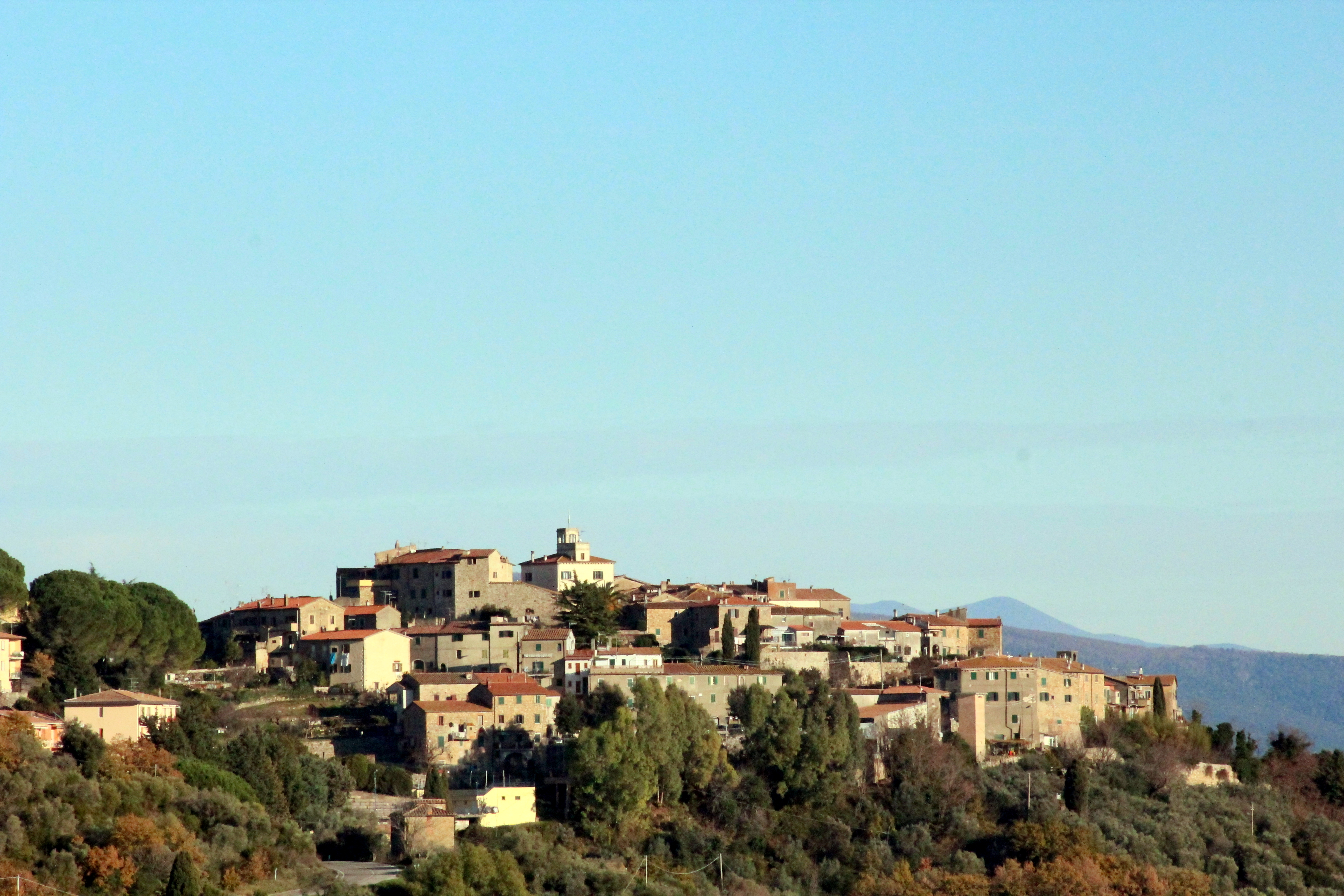 Panorama of Giuncarico, hamlet of Gavorrano, Maremma, Province of Grosseto, Tuscany, Italy